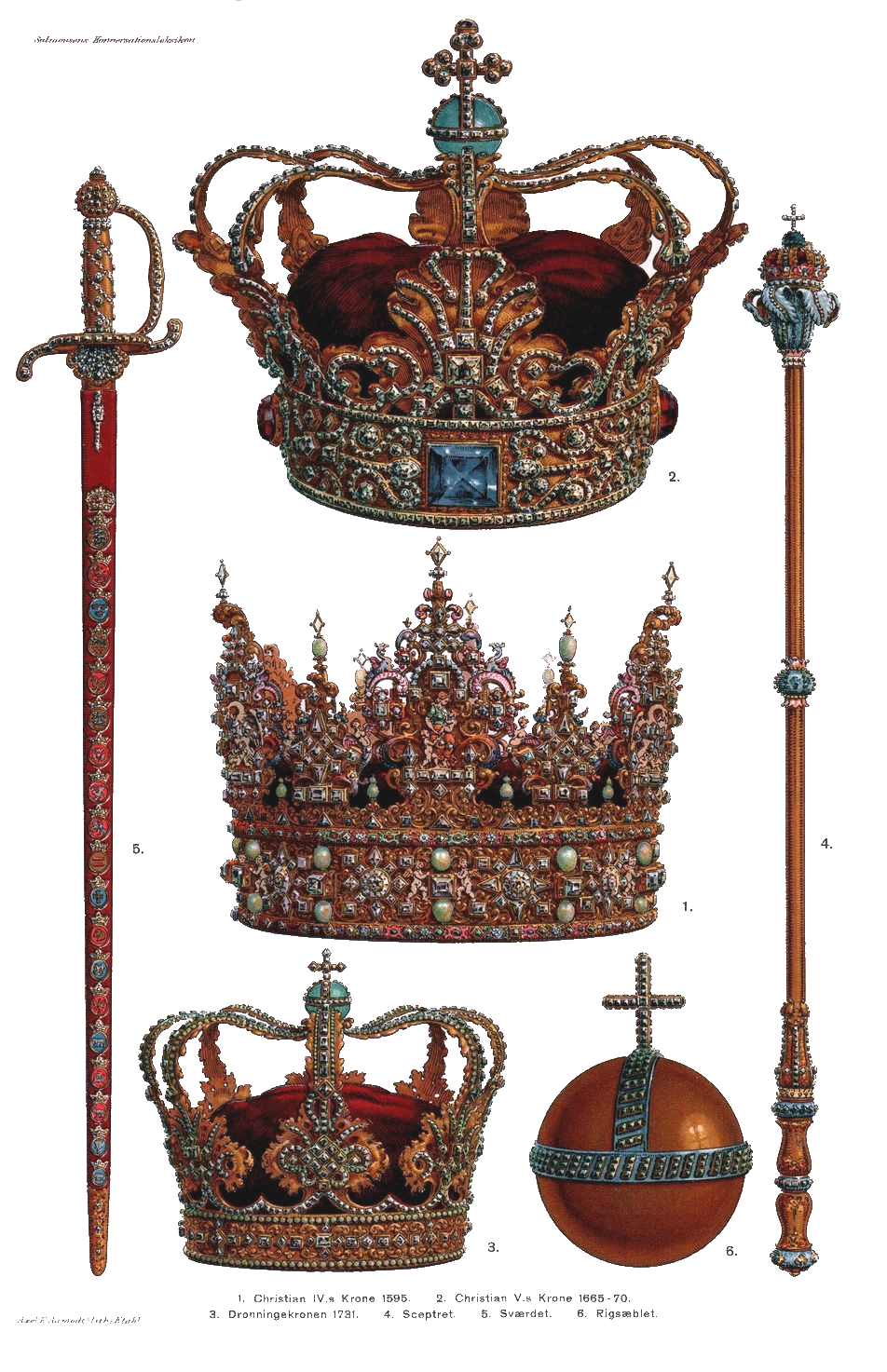 Danish Crown Regalia *1. Crown of Christian IV 1595. (centre image) *2. Crown of Christian V 1665-70. (top image) *3. The queen's crown 1731. (bottom image) *4. Sceptre. *5. Sword of state. *6. Globus cruciger.